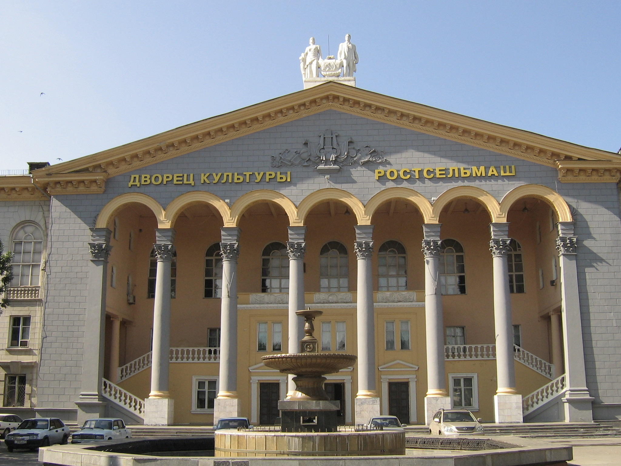 Palace of culture «Rostselmash» (Rostov-on-Don)